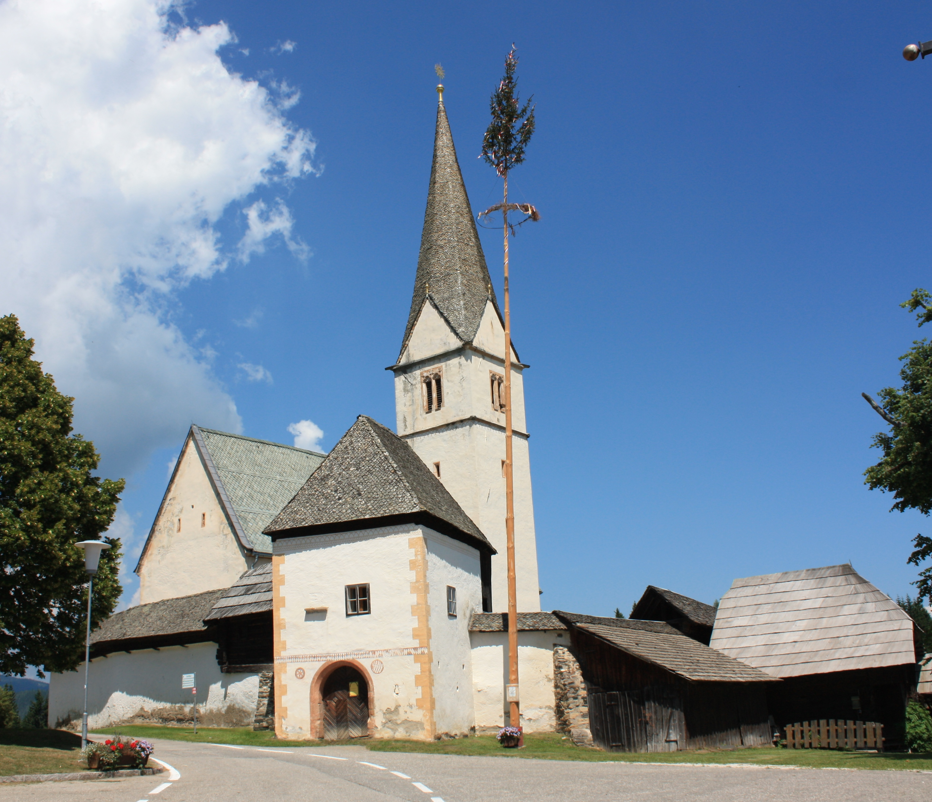 Parish church "Maria Magdalena" in Grafenbach in the community of Diex